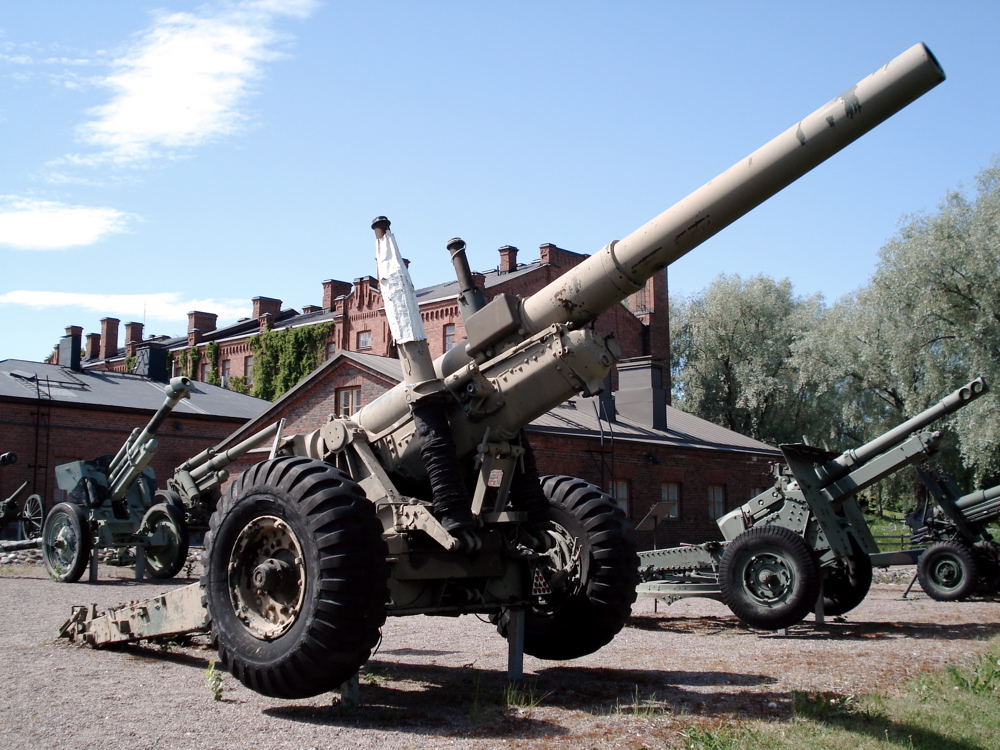 British Ordnance BL 5.5 inch (140 mm) M3 medium gun from year 1939, displayed in Hämeenlinna Artillery Museum. This gun: BL 5,5 MK 2&4 NL 79 RGFD (Royal Gun Factory) Photo taken on June 18, 2006. Source: Photo by me, User:Balcer.